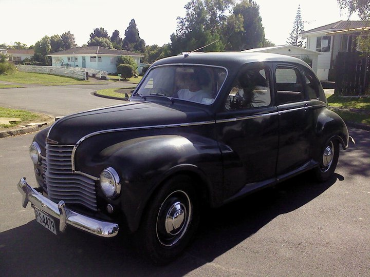 a black Jowett Javelin at the end of a culde sac. an old British car